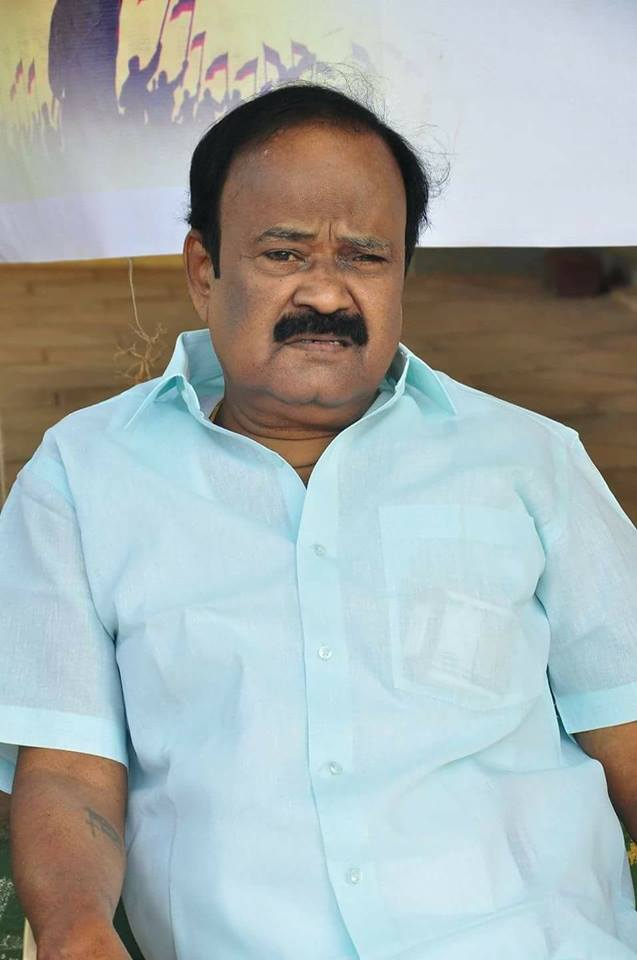 At this home in Karaikudi.